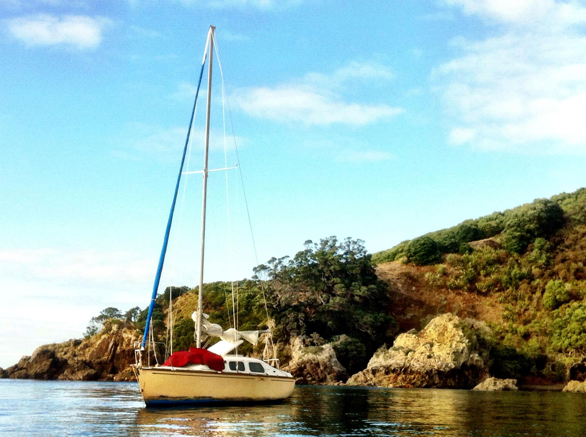 This is a picture of a Beachcomber 6.5, a small yacht that was designed and built in New Zealand.